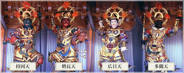 The statues of the Four Heavenly Kings by Tsukumo Imamura housed in the Great South Gate of Renge-in.